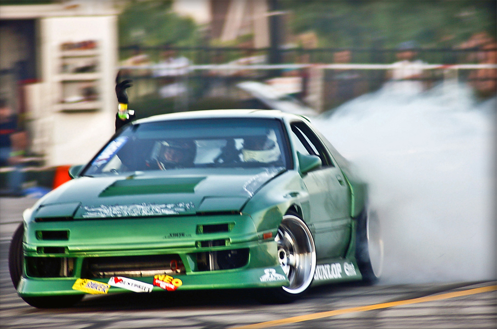 Drift racing at the Night Shift event in Chicago